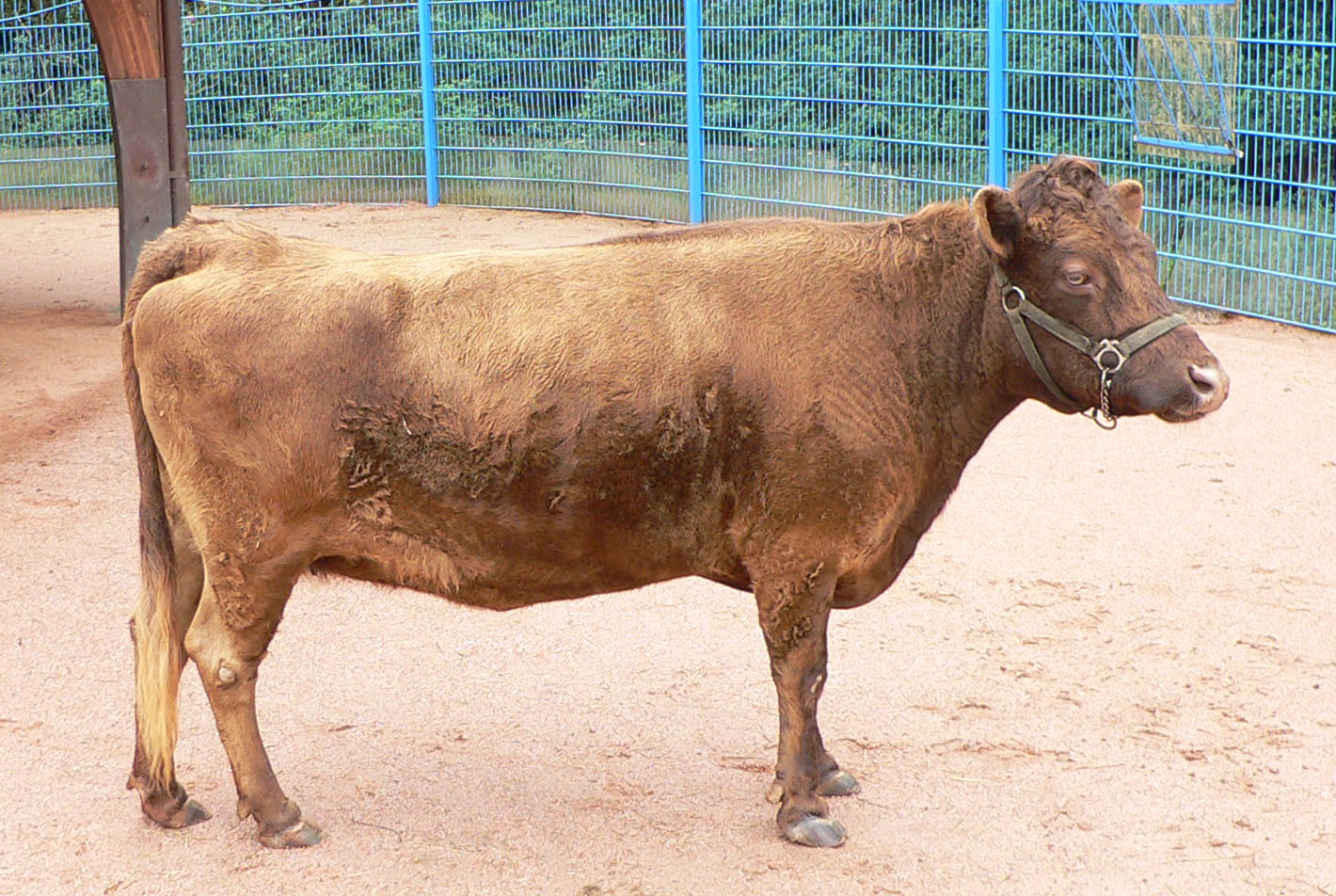 Picture of a cow. Taken at Disney's Animal Kingdom by on January 16, 2005.